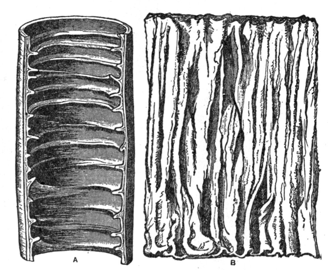 Alimentary Canal Fig. 3.—Valvulae Conniventes, from Encyclopædia Britannica 1911